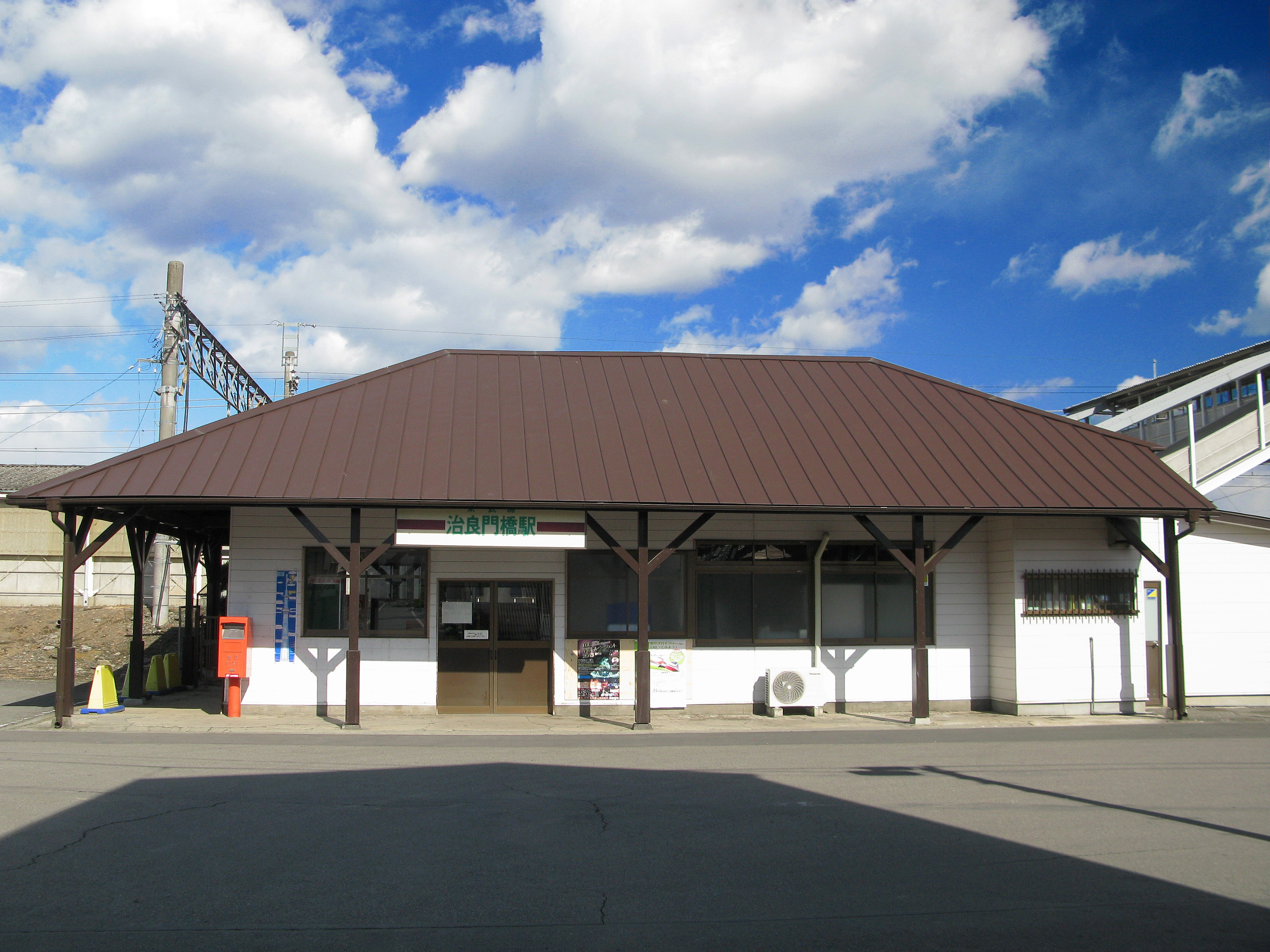 Jiroembashi Station on the Tobu Kiryu Line in Ota, Gunma Prefecture Japan